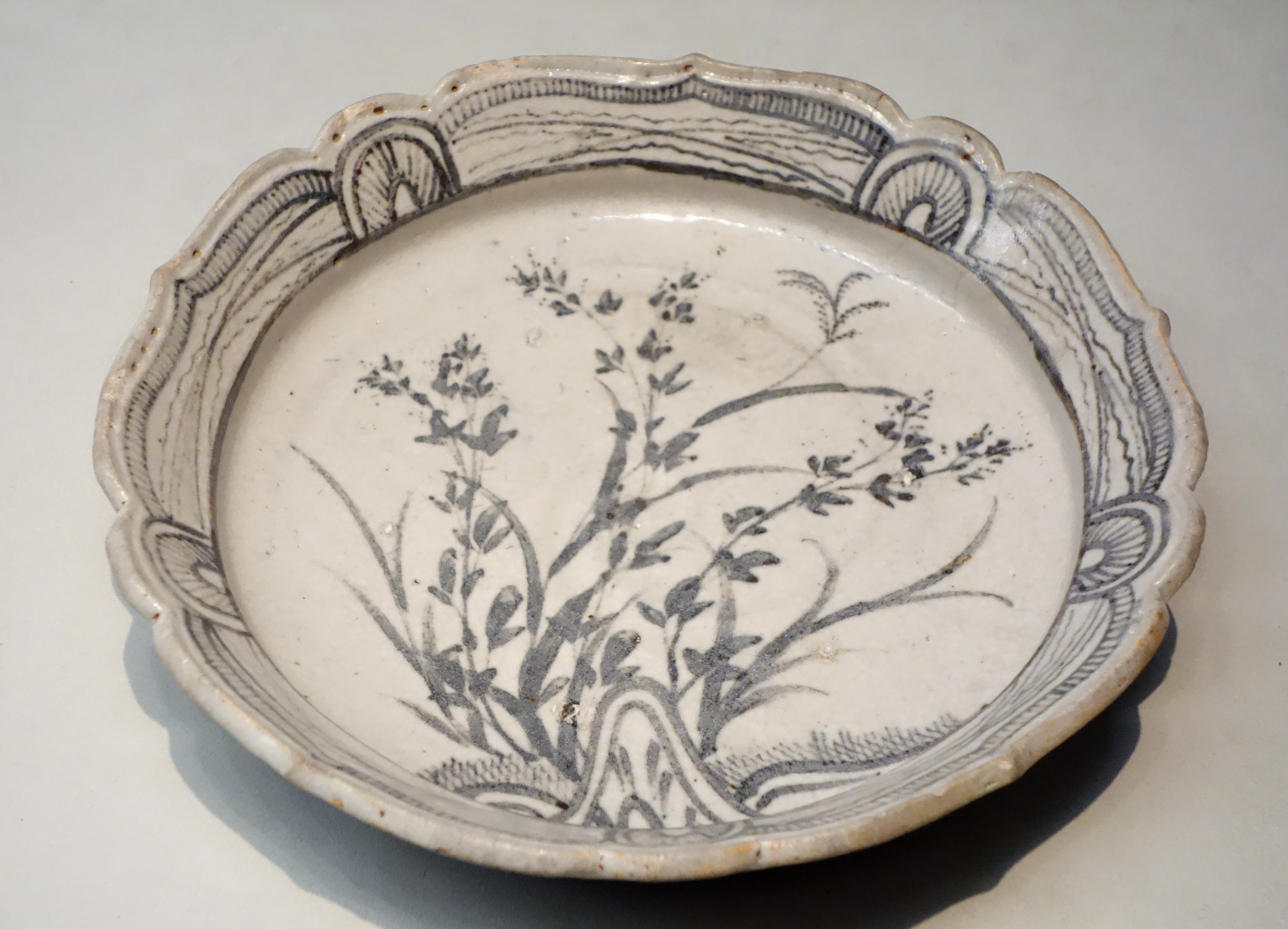 Exhibit in the Tokyo National Museum, Tokyo, Japan. This artwork is old enough so that it is in the public domain.